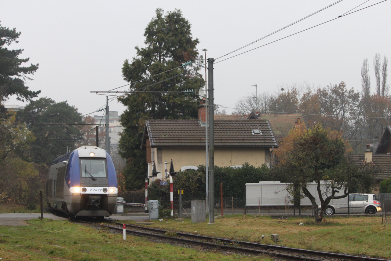 SNCF Z 27692 at level crossing n. 7 (PN n° 7) in Chêne-Bourg while running from Genève-Eaux-Vives to Annemasse as TER 84362.